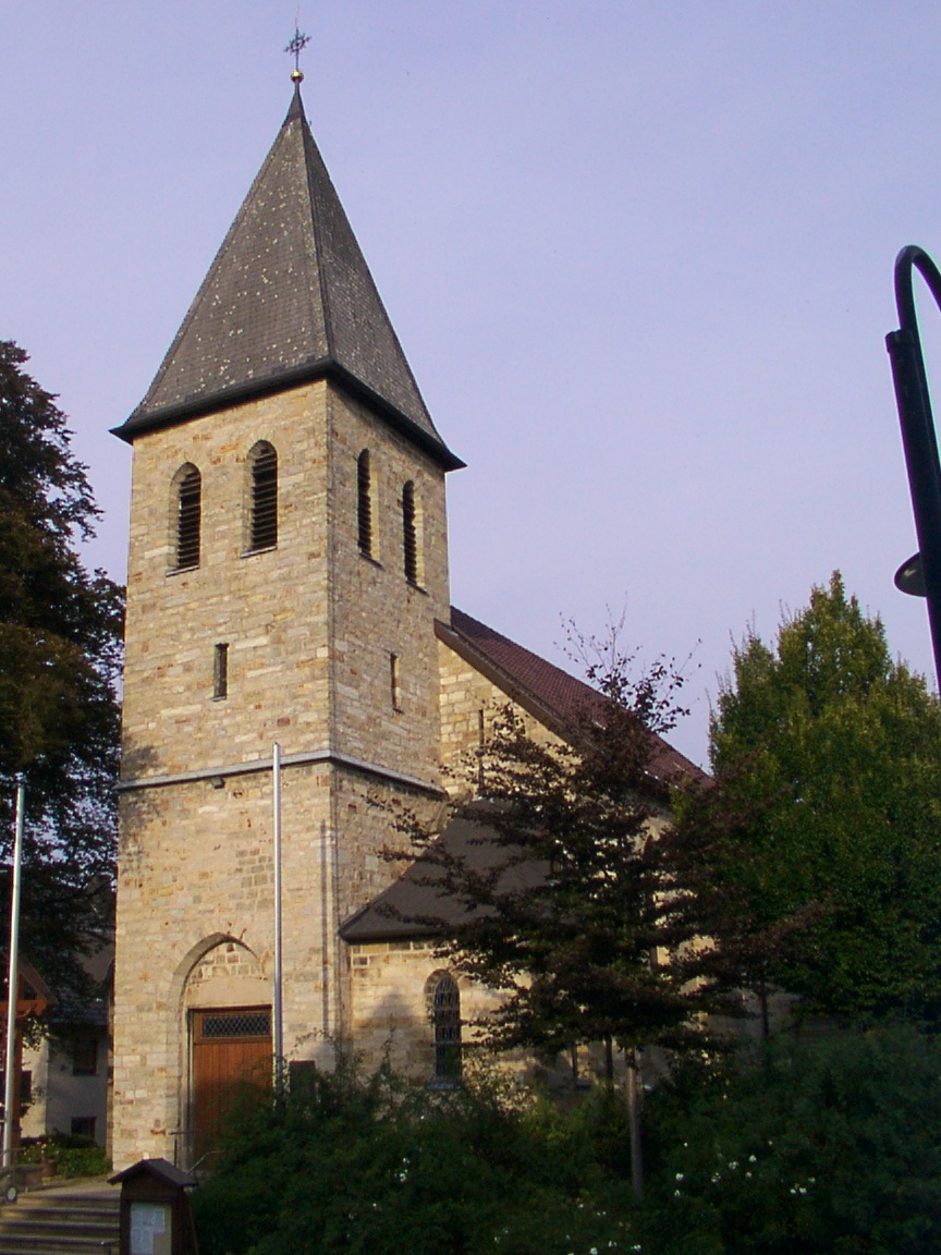 Salzkotten: Catholic Saint Peter church in Upsprunge This is a photograph of an architectural monument.